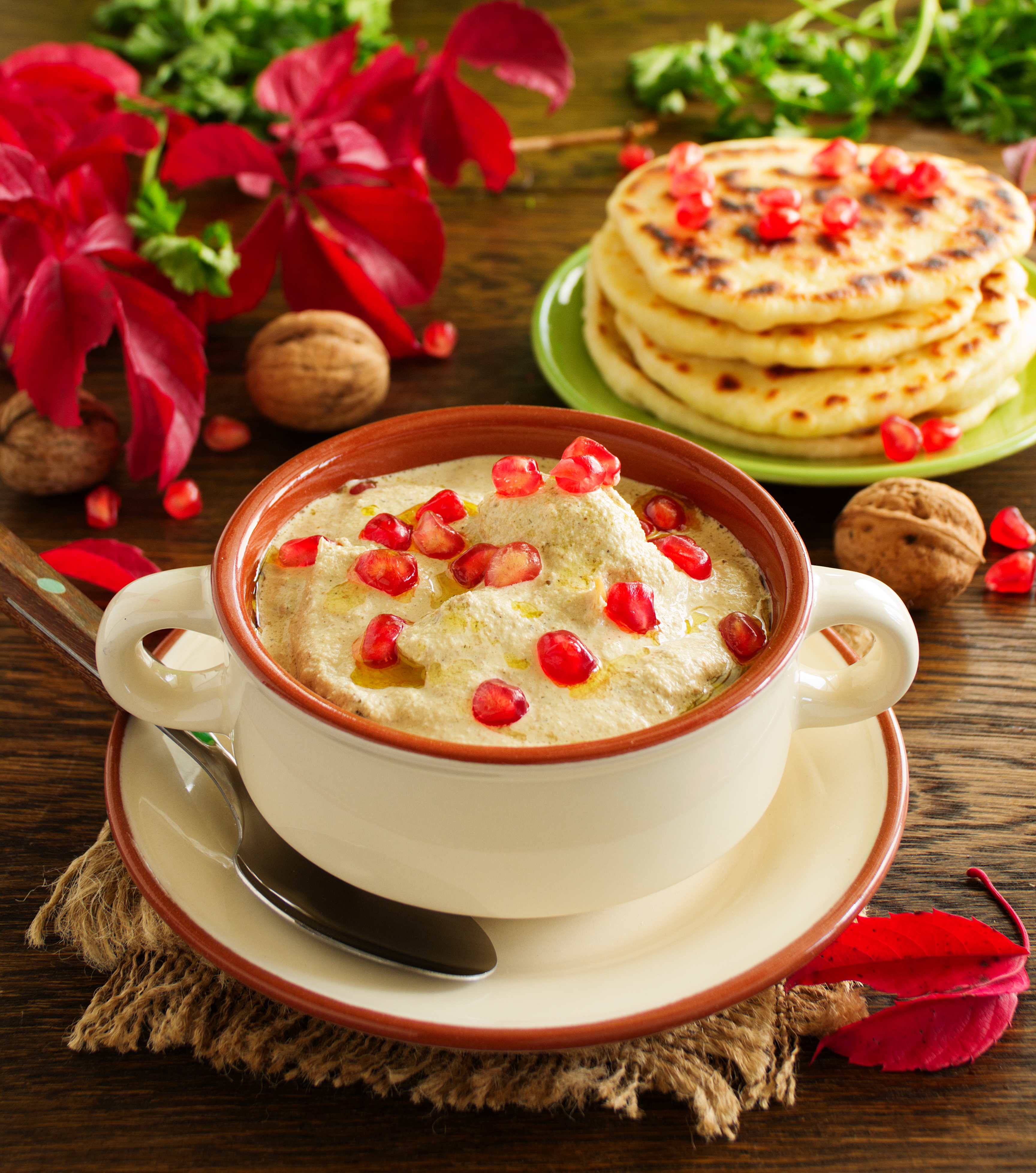 Georgian dish of chicken - satzivi.